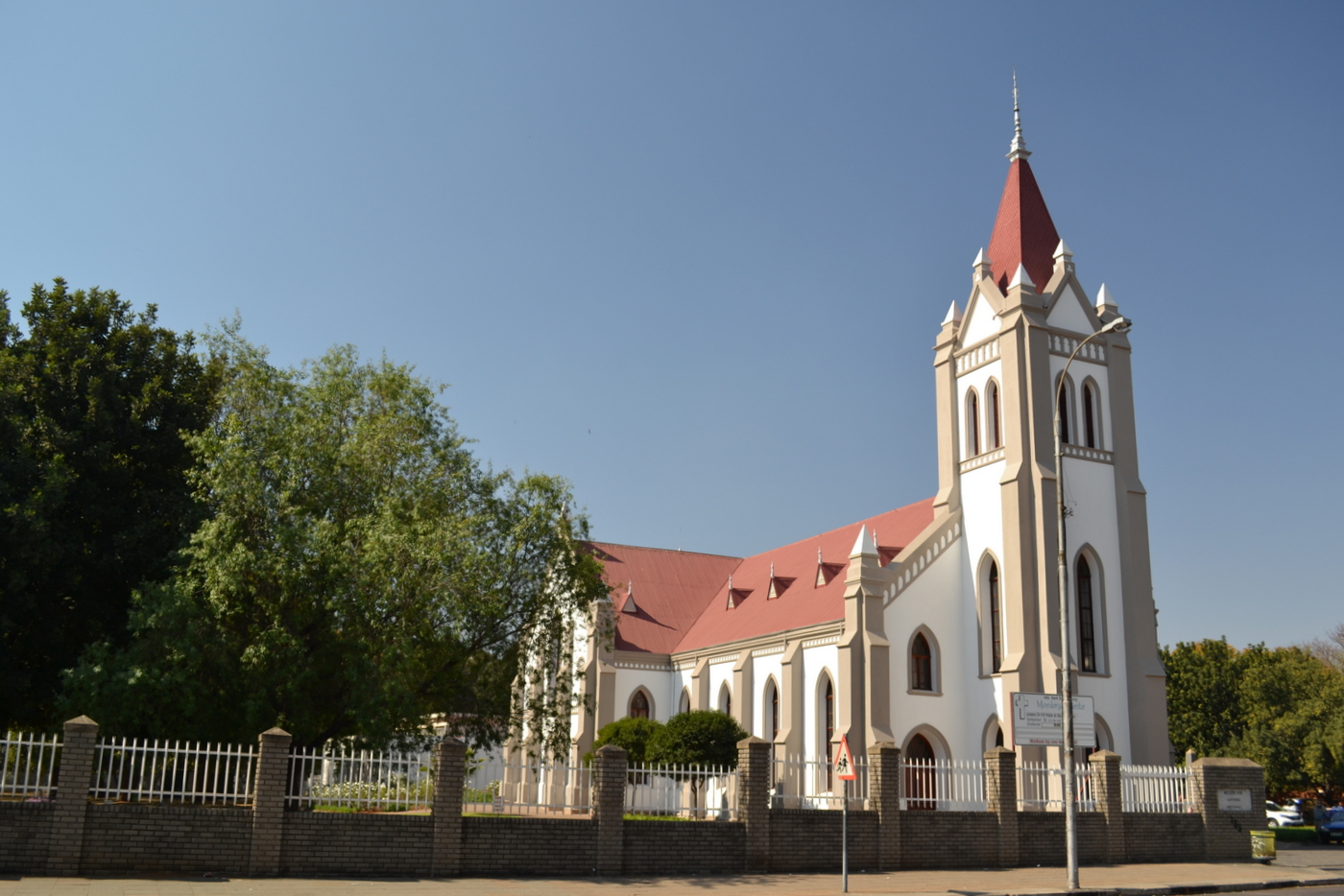 Dutch Reformed Church, Plein Street, Rustenburg South Africa This media shows a South African Protected Site with SAHRA file reference 9/2/263/0002.